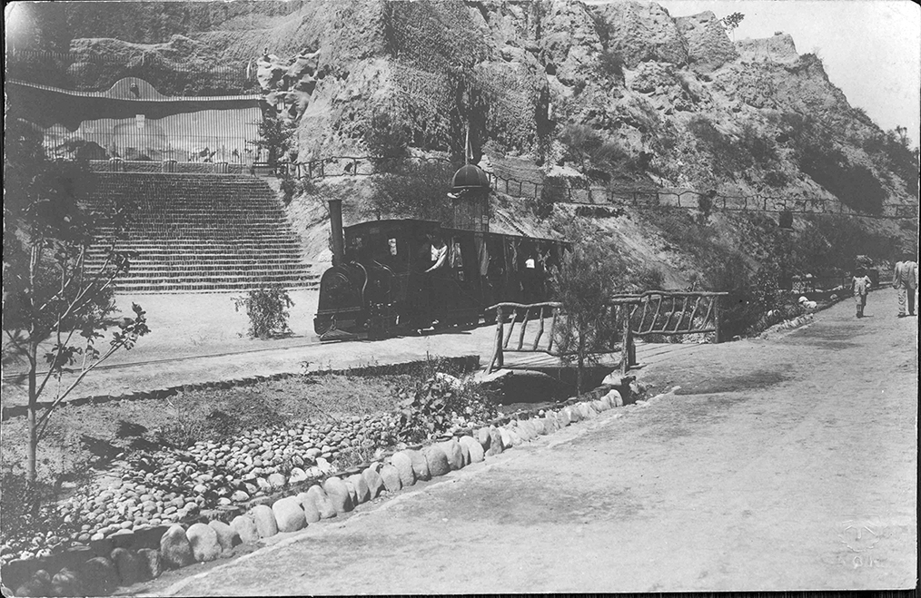 A view of the 'Lilliputian train' passing in front of the Cage of the Lions in March 1917 in the Cordoba Zoological Garden; Two years after its official inauguration. Cordoba city, Argentine Republic. The train was composed of a locomotive and 5 cars, with capacity for 4 large people or 6 children; leaving the 'Cascada Station', it traveled in its first days 1km and a half, and through a tunnel excavated under the ravine, passed through the dike, went around the entire lake to return to the station through the main valley.